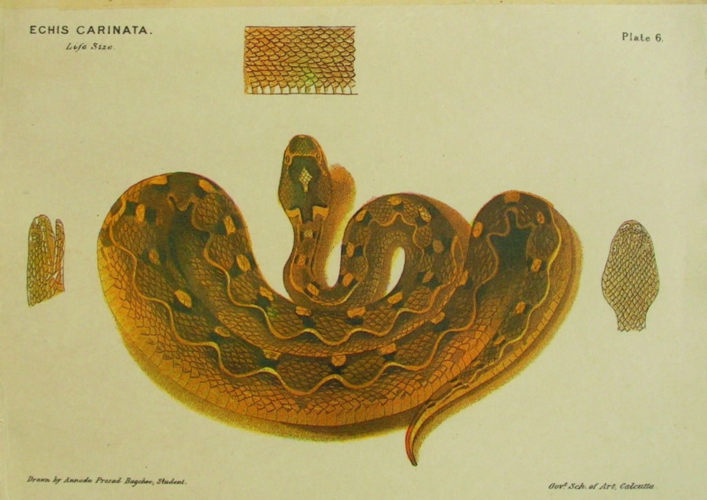 Echis carinatus illustration